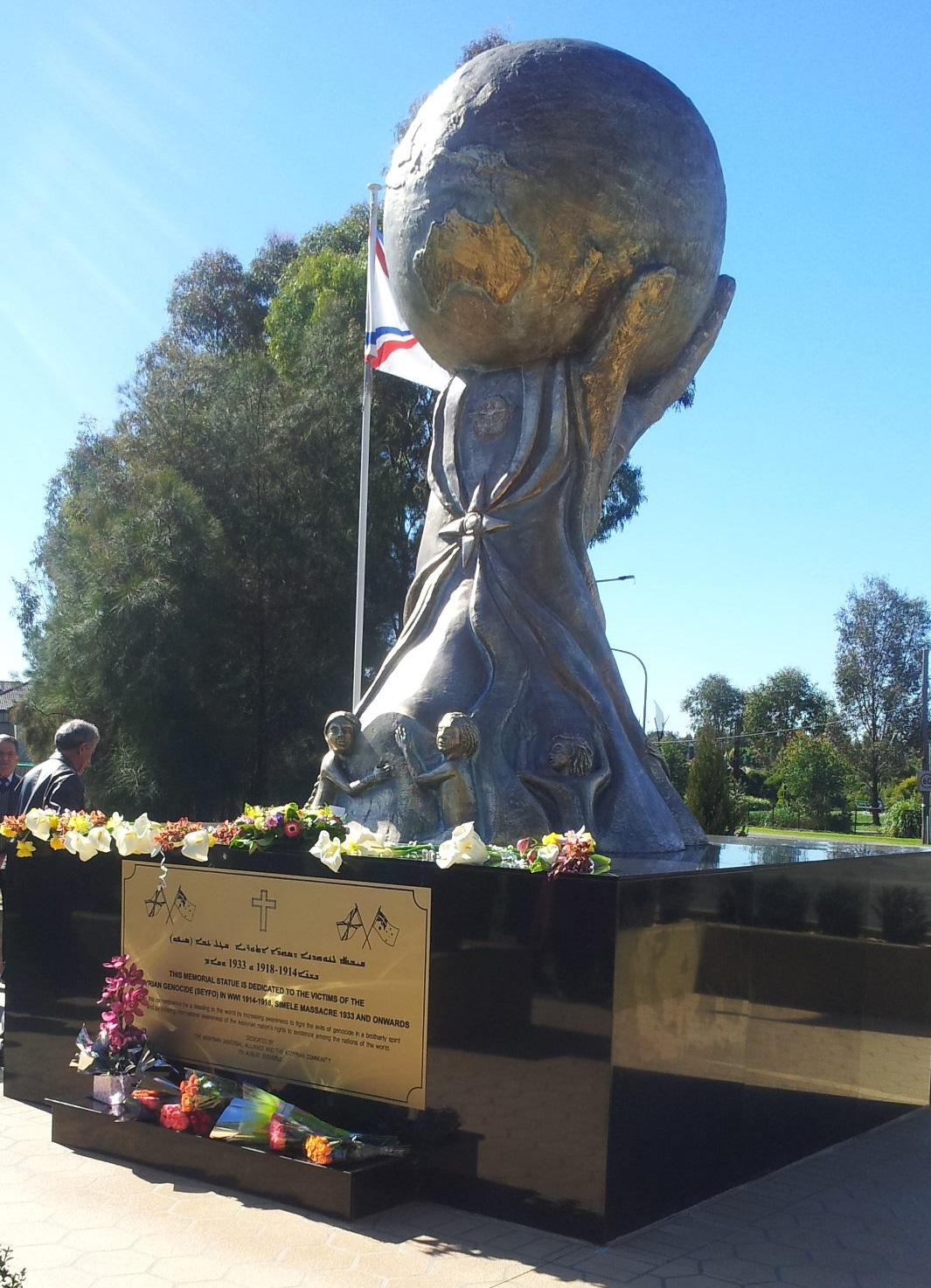 Assyrian Genocide monument in Sydney.